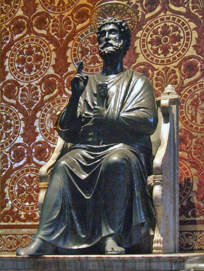 Ancient statue of St. Peter in St. Peter's Basilica, Rome. Possibly the work of Atnolfo di Cambio. Thought by some historians to be much older.